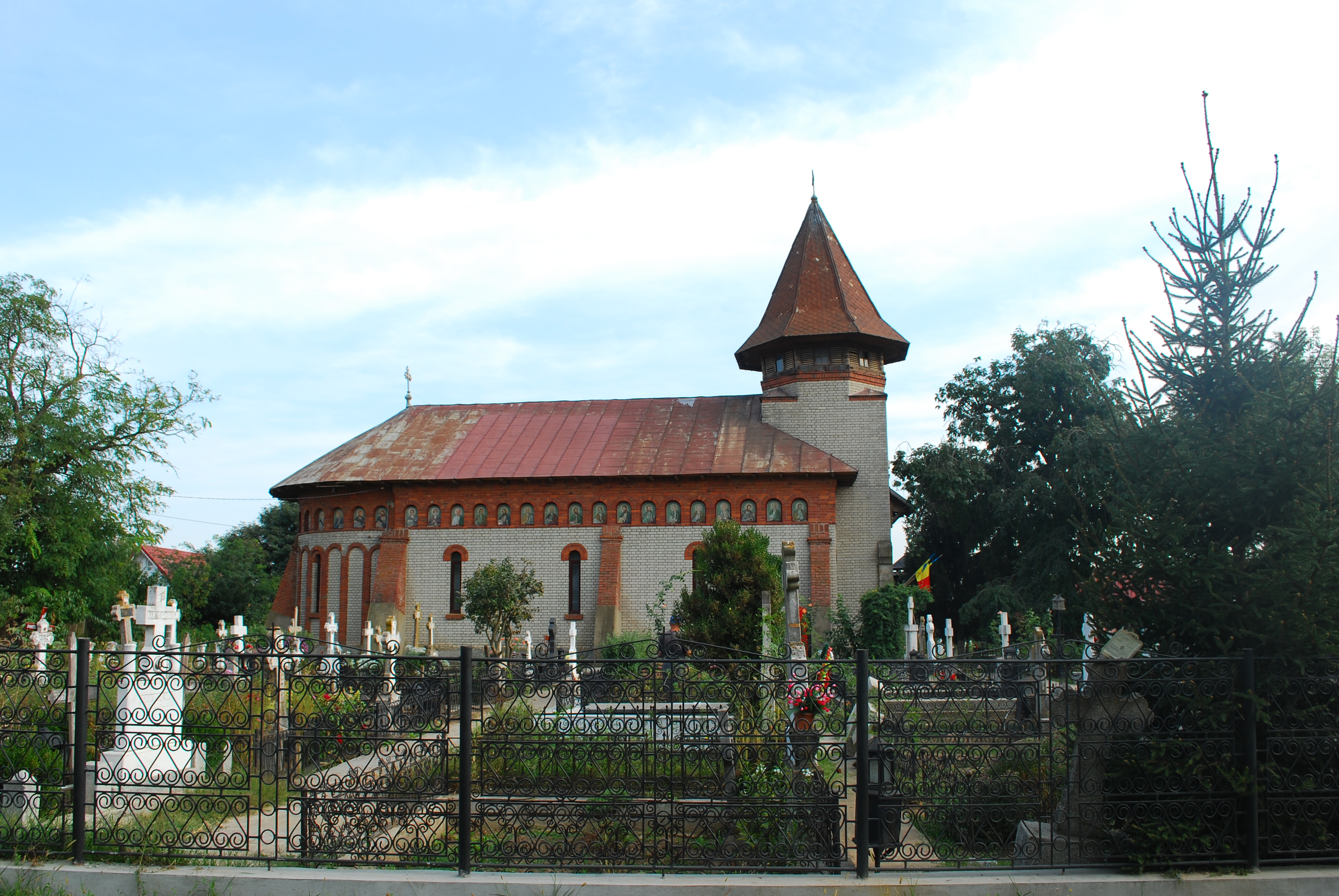 Saint Nicholas' church in Moara Domnească, Găneasa Commune, Ilfov County, RomaniaRomână: Biserica Sfântul Nicolae din satul Moara Domnească, comuna Găneasa, județul Ilfov, România